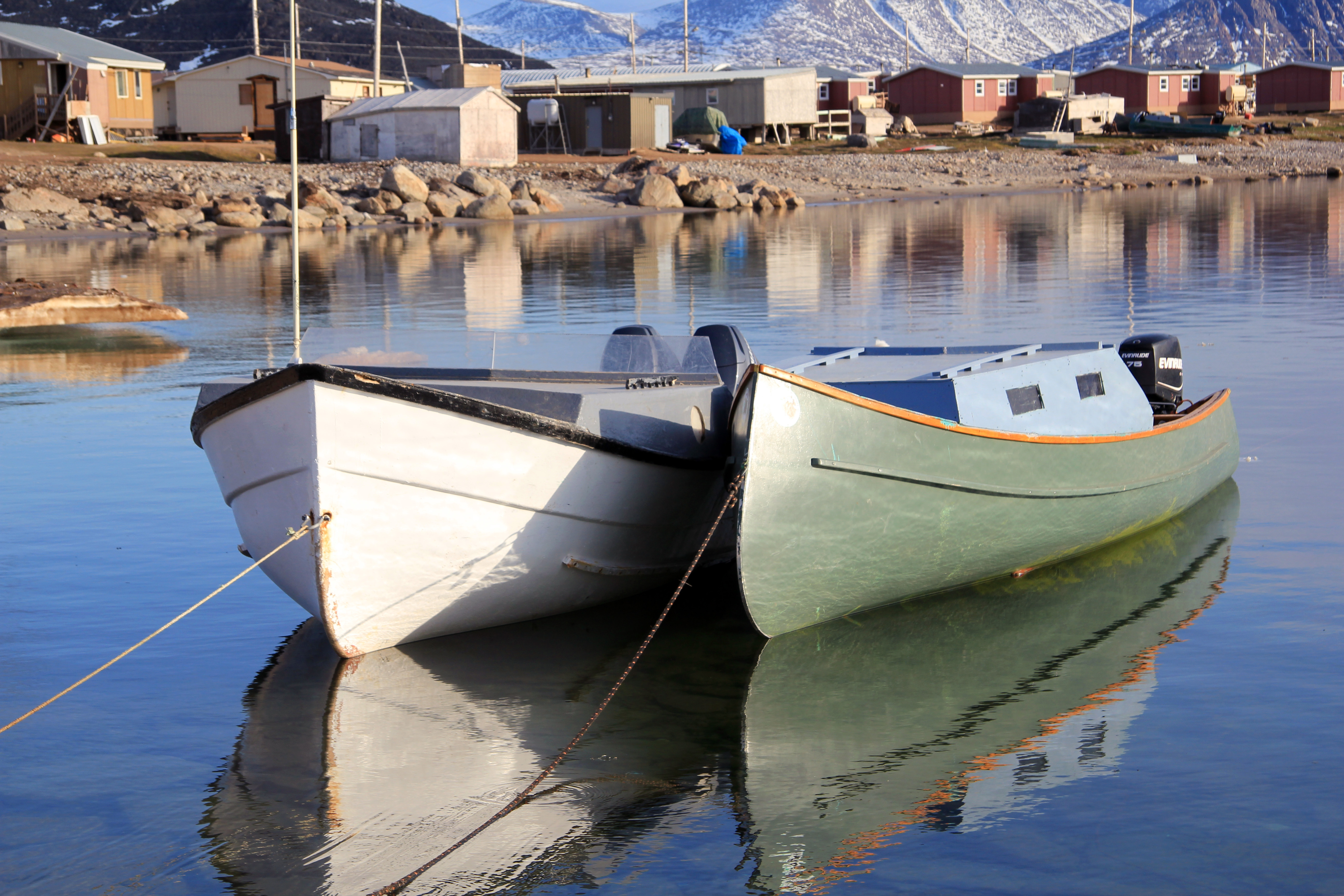 Boats in the peaceful waters